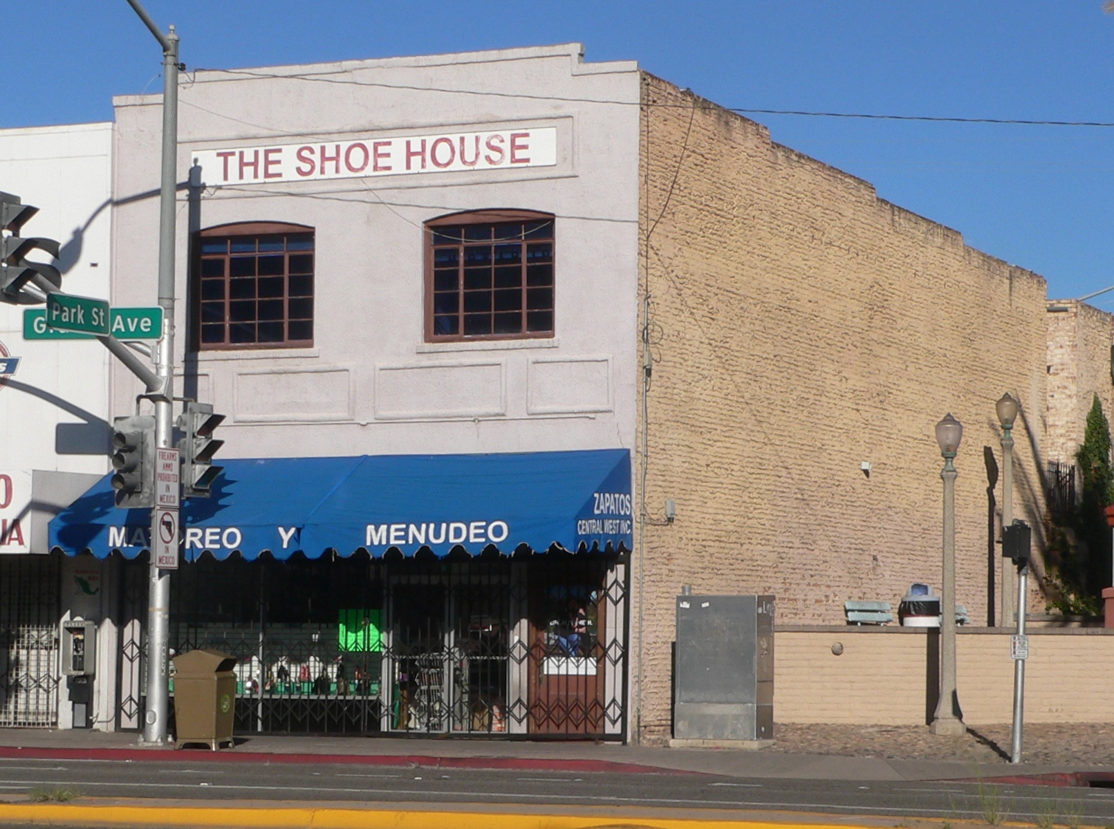 J. E. Wise building, located at 87 N. Grand Avenue (southwest corner of Grand and Crawford Street) in Nogales, Arizona. View is from the east.